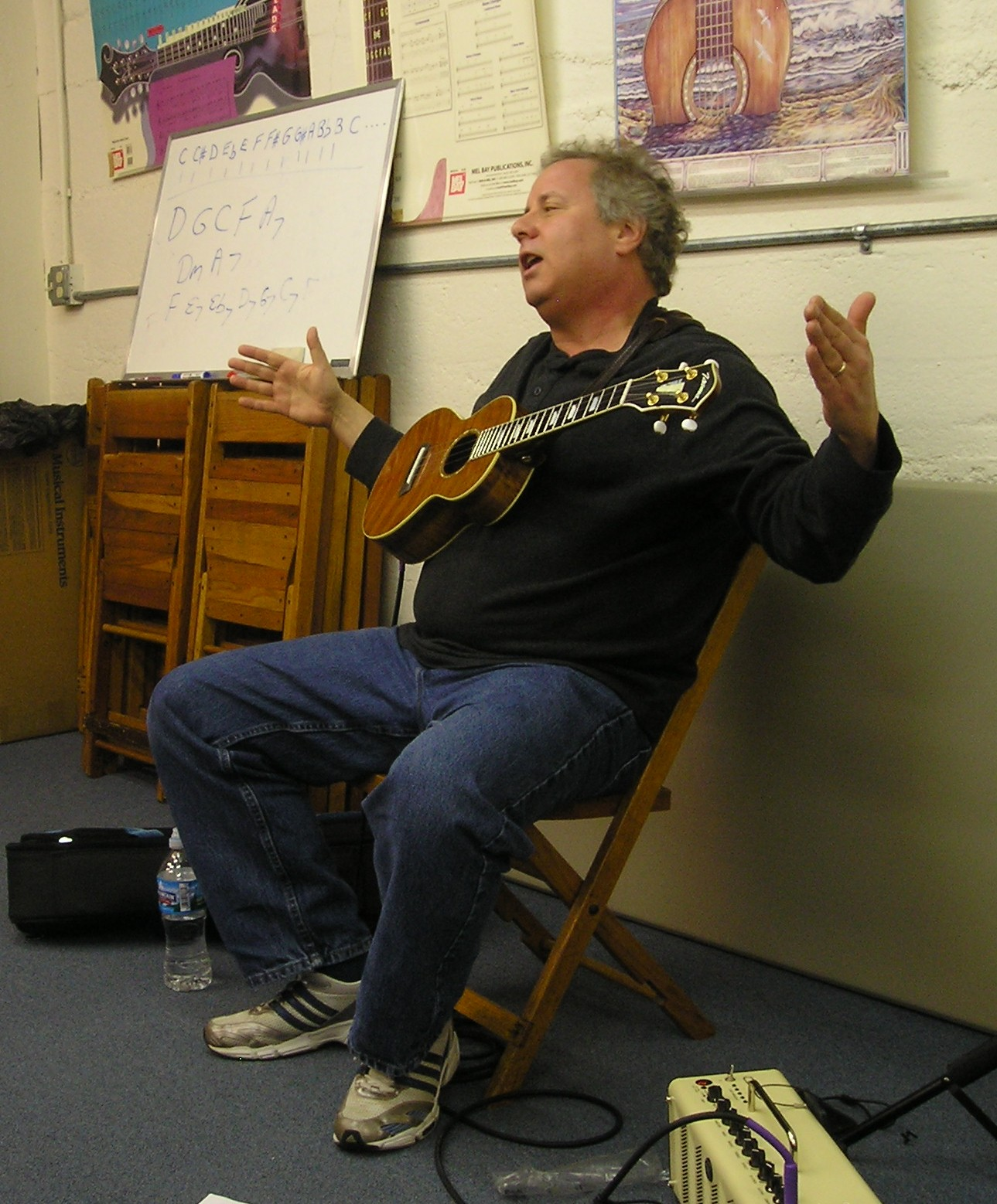 Gerald Ross conducting an ukulele workshop at Elderly Instruments in Lansing, Michigan in February 2013.